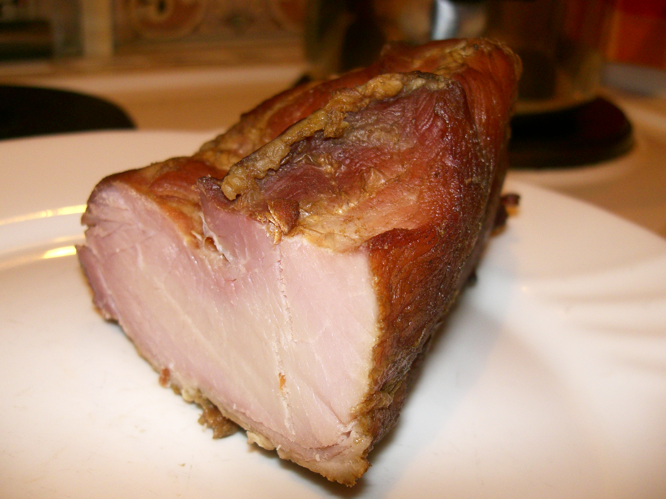 Homemade šunka, Czech Republic